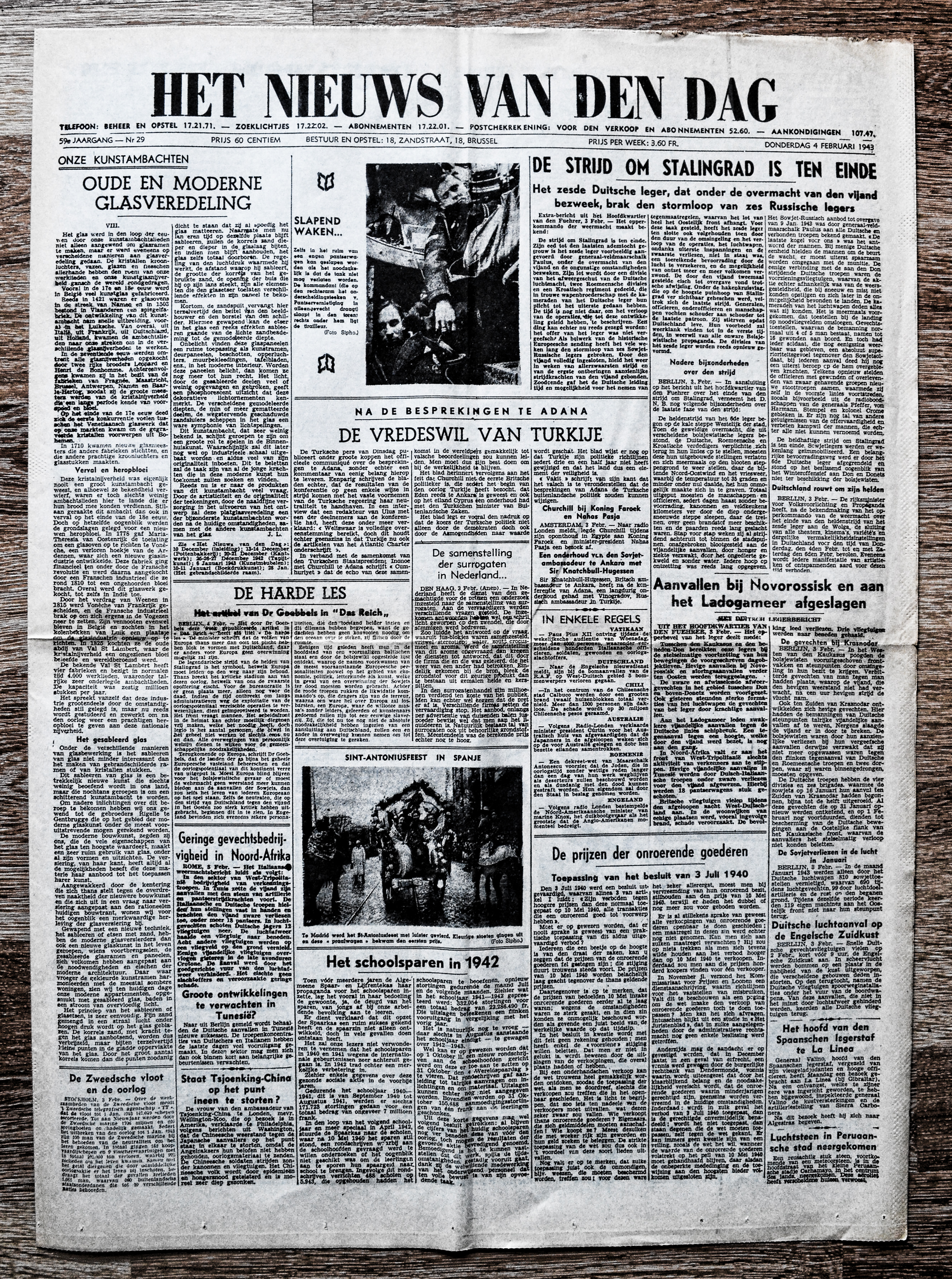 Front page Flemish daily newspaper "Het Nieuws Van Den Dag" 4 February 1943. With headline: "The Battle for Stalingrad is over".